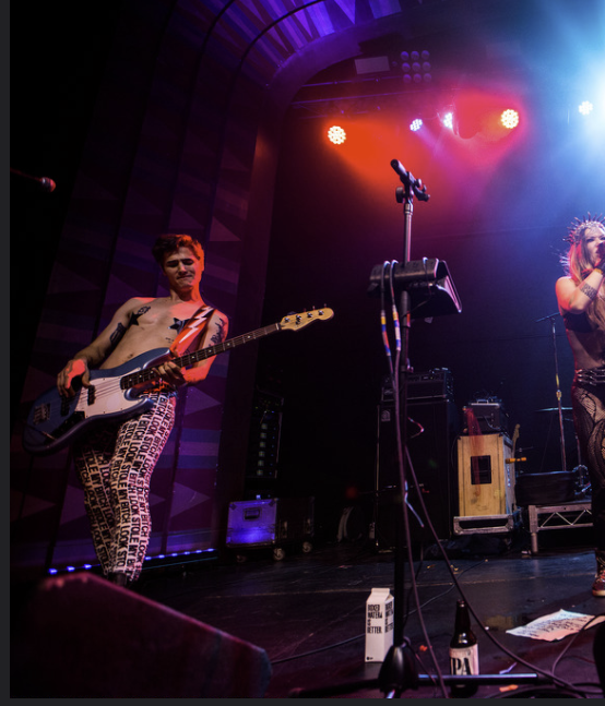 Ken Chritianson and Nadia G. performing at the Regent Theater in Los Angeles for Riot Grill.